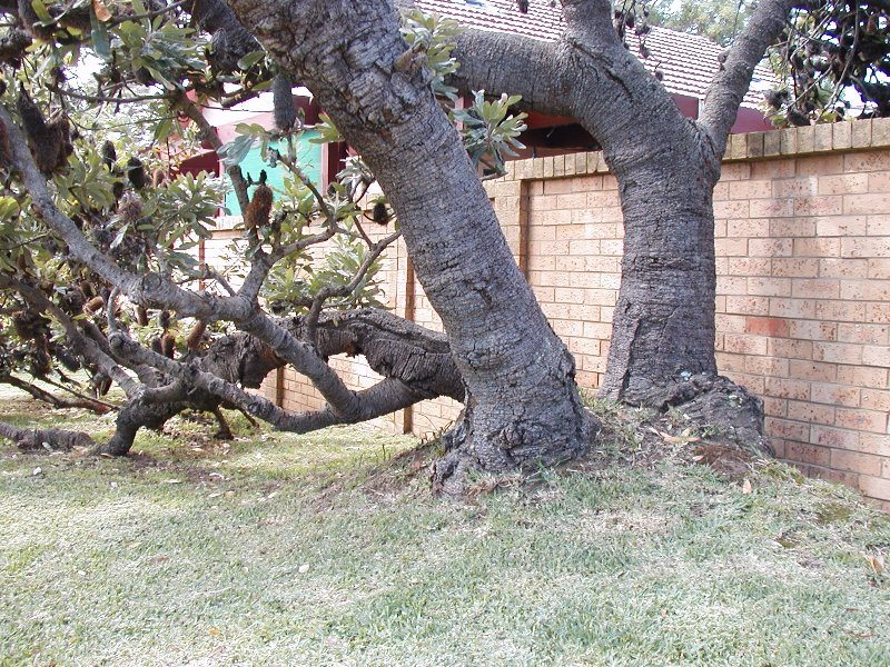 Banksia serrata gnarly trunk, Kirrawee, NSW photo Cas Liber